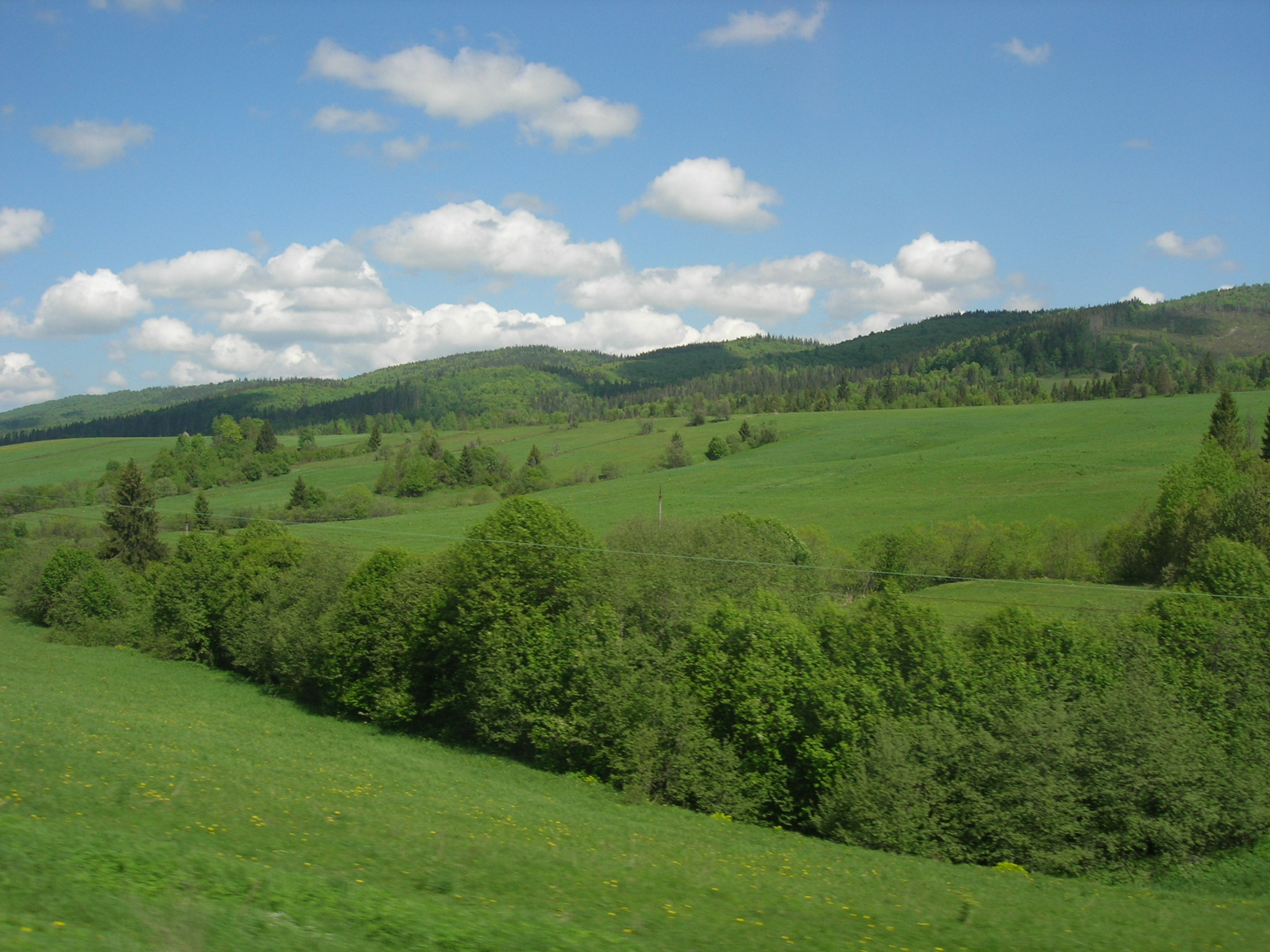 Ukrainian Carpathians